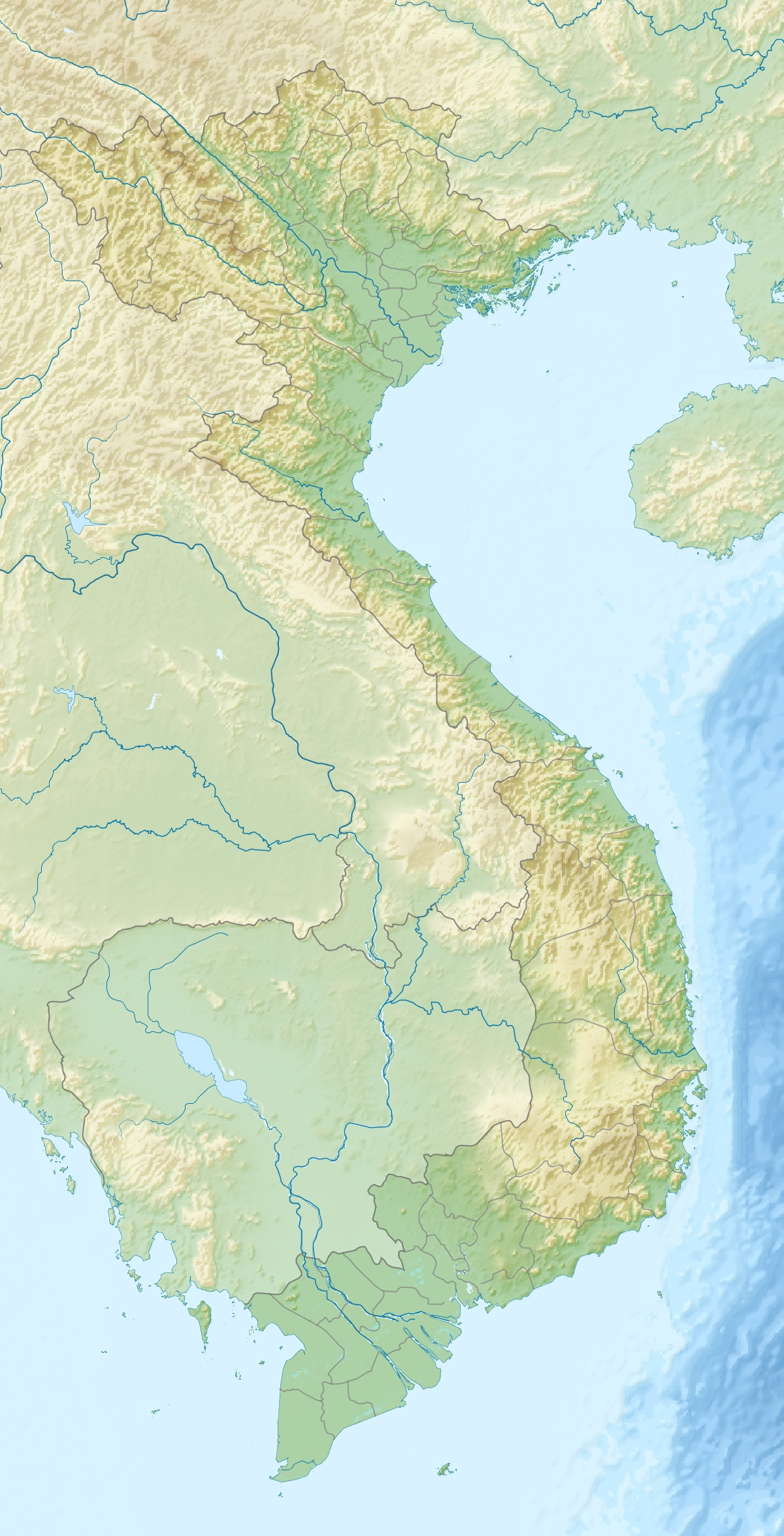 Location map of Vietnam. Equirectangular projection. Strechted by 104.0%. Geographic limits of the map: * N: 24.0° N * S: 8.0° N * W: 101.8° E * E: 110.3° E Made with Natural Earth. Free vector and raster map data @ .